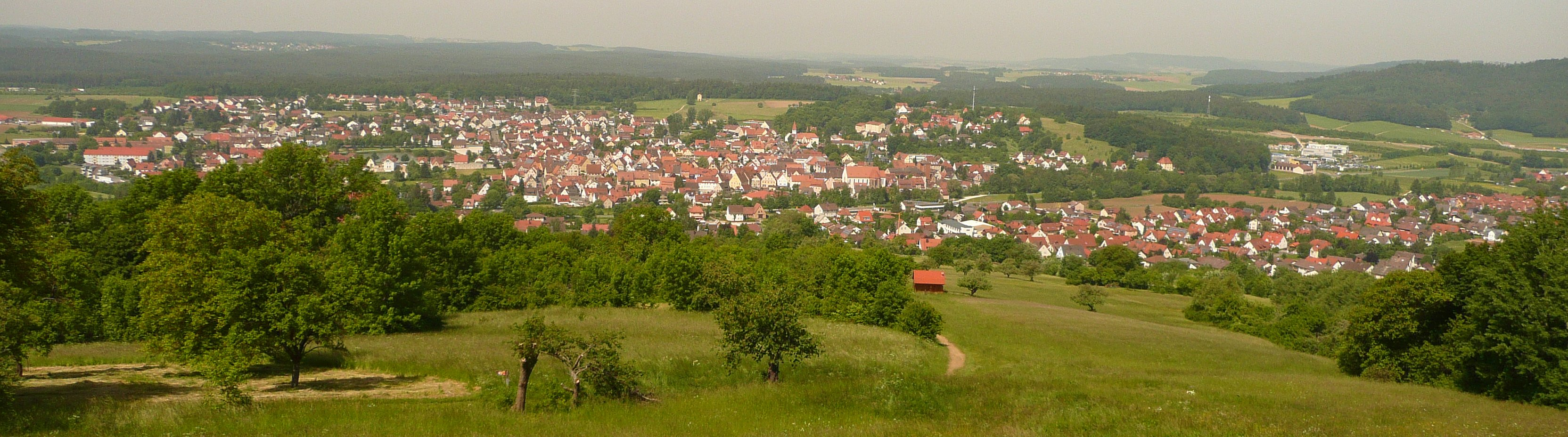 View of Schnaittach, Germany, from the Rothenberg